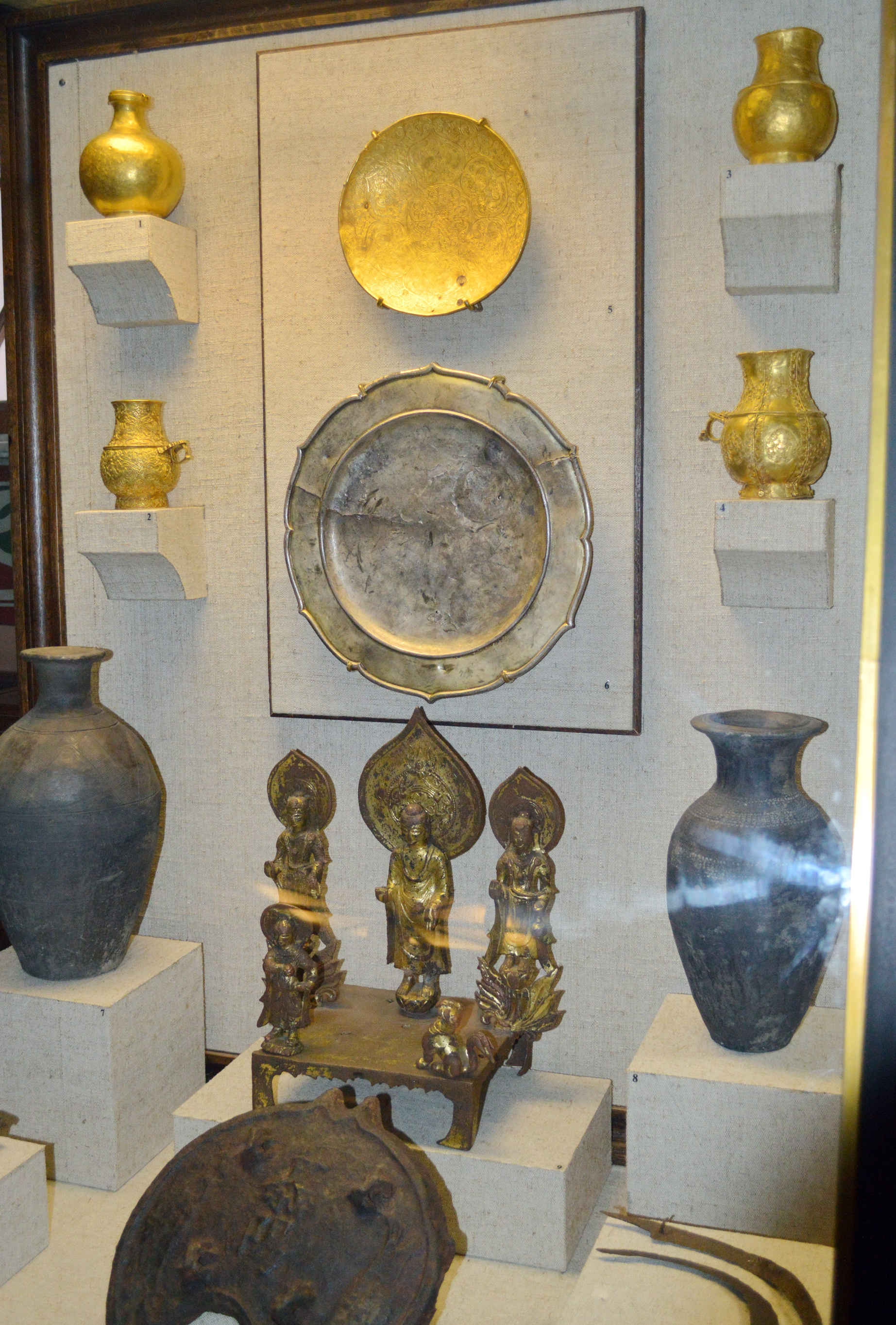 Ancient Khakass state, 6-9 c. AD. Golden vessels and plate, silver plate, clay vessels, Buddhist altar (China).